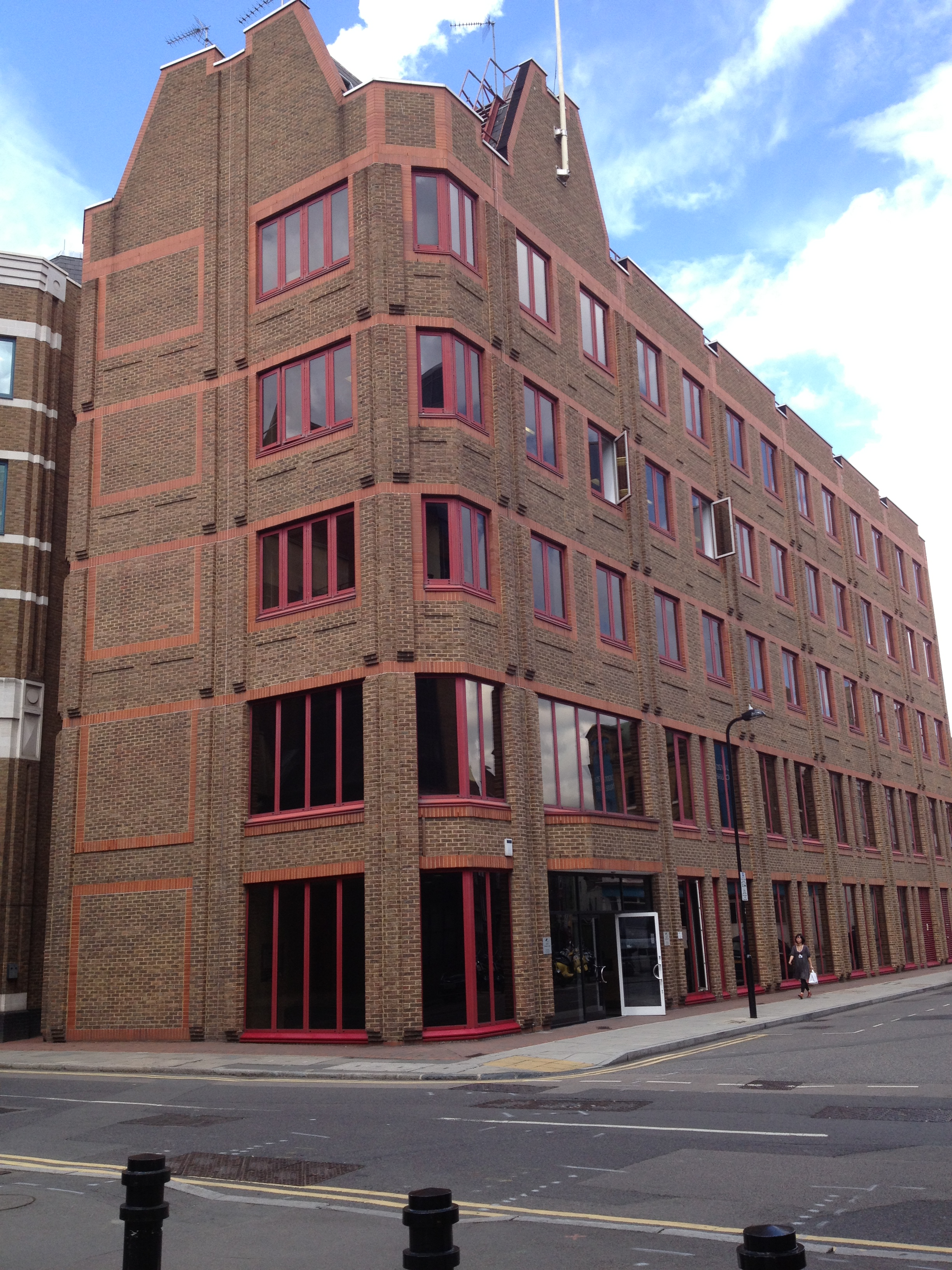 A photo of the outside of 65 Clifton Street, London where Open Data Institute is based